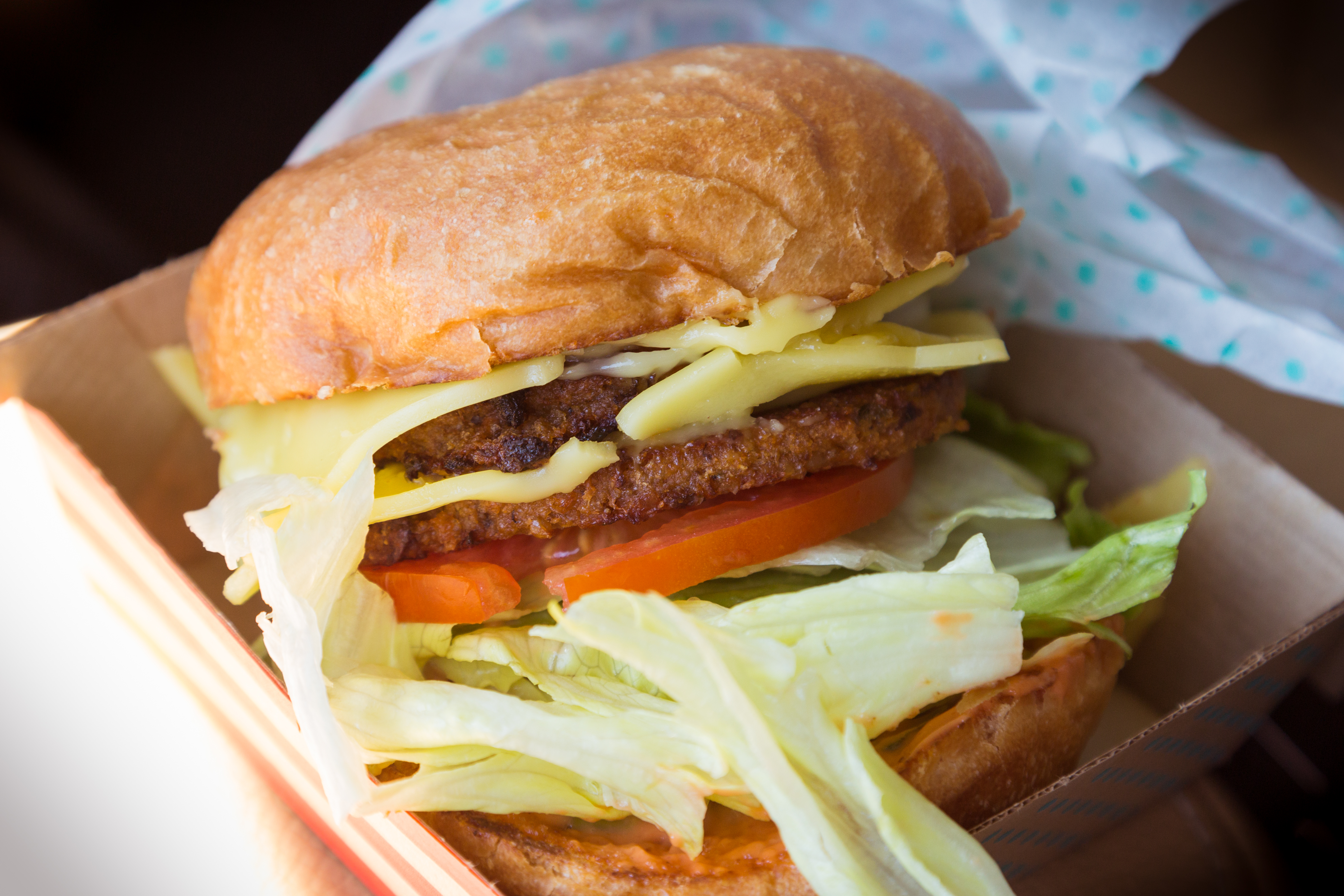 The vegan Amy Burger at Amy's Drive-Thru in Rohnert Park, California.